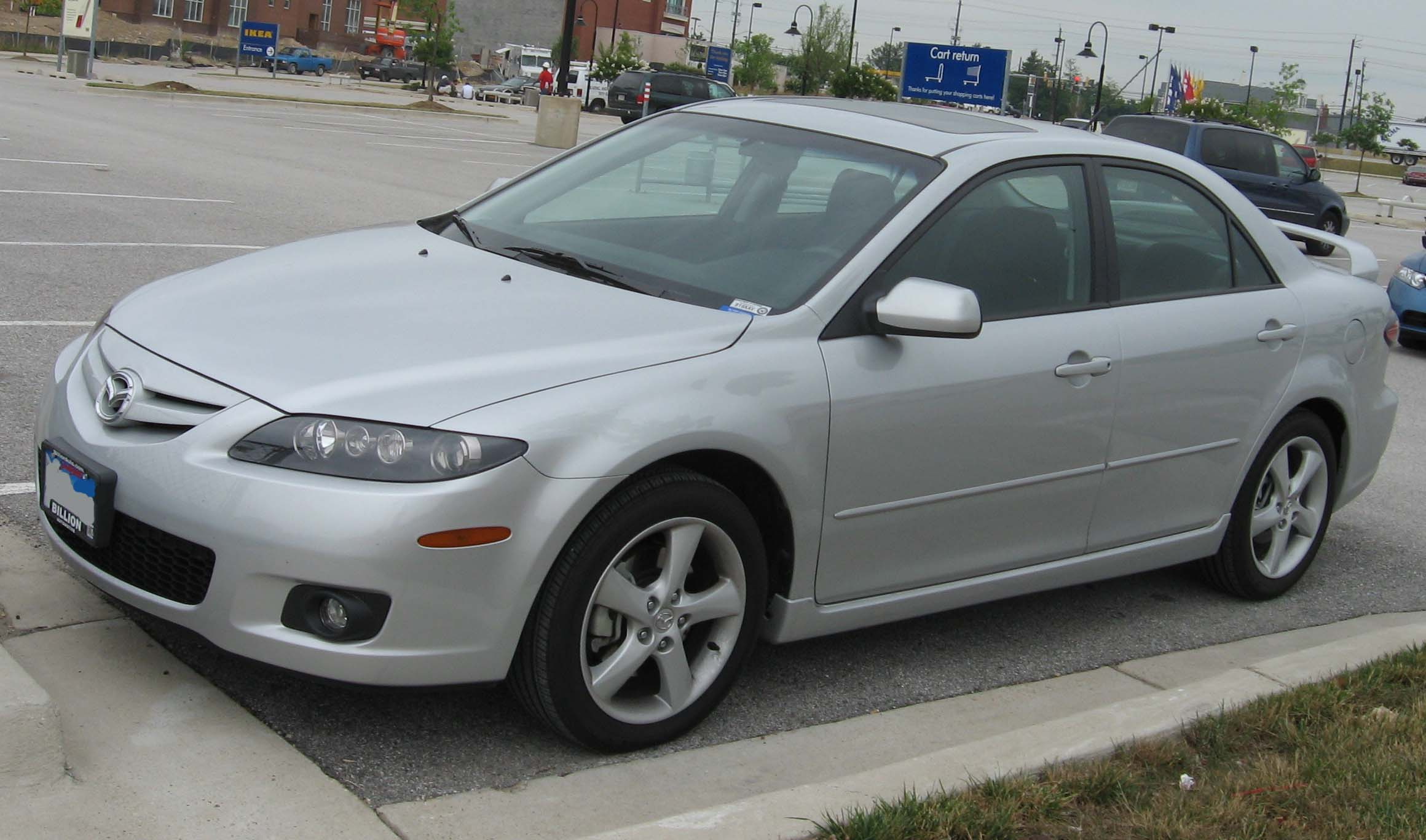 2006-2008 Mazda6 photographed in USA.